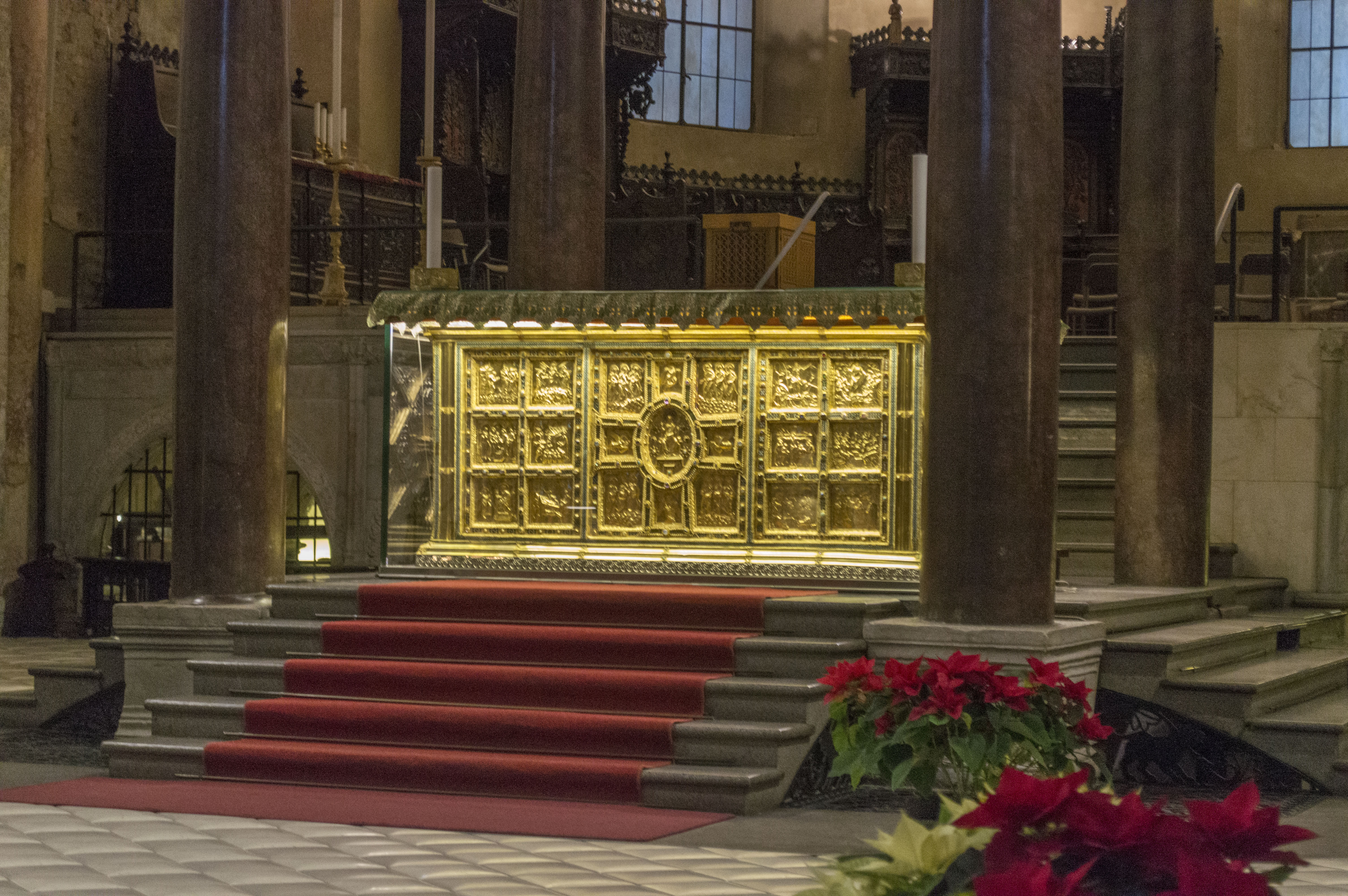 Study trip of students of art history in Brno with doc. Ivan Foletti to Milan and surroundings.